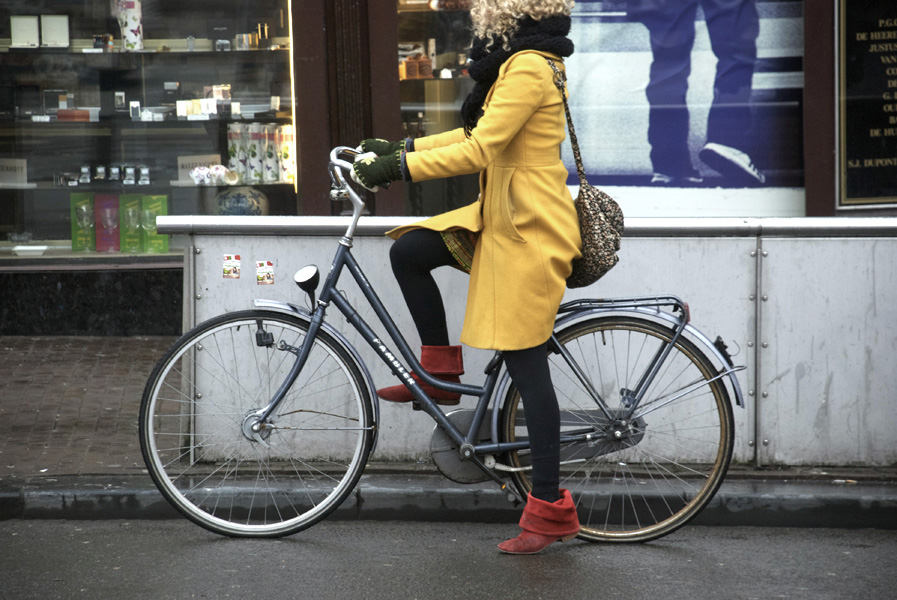 A bike girl waits for traffic at the Muntplein in Amsterdam. Photo by Gary Mark Smith.